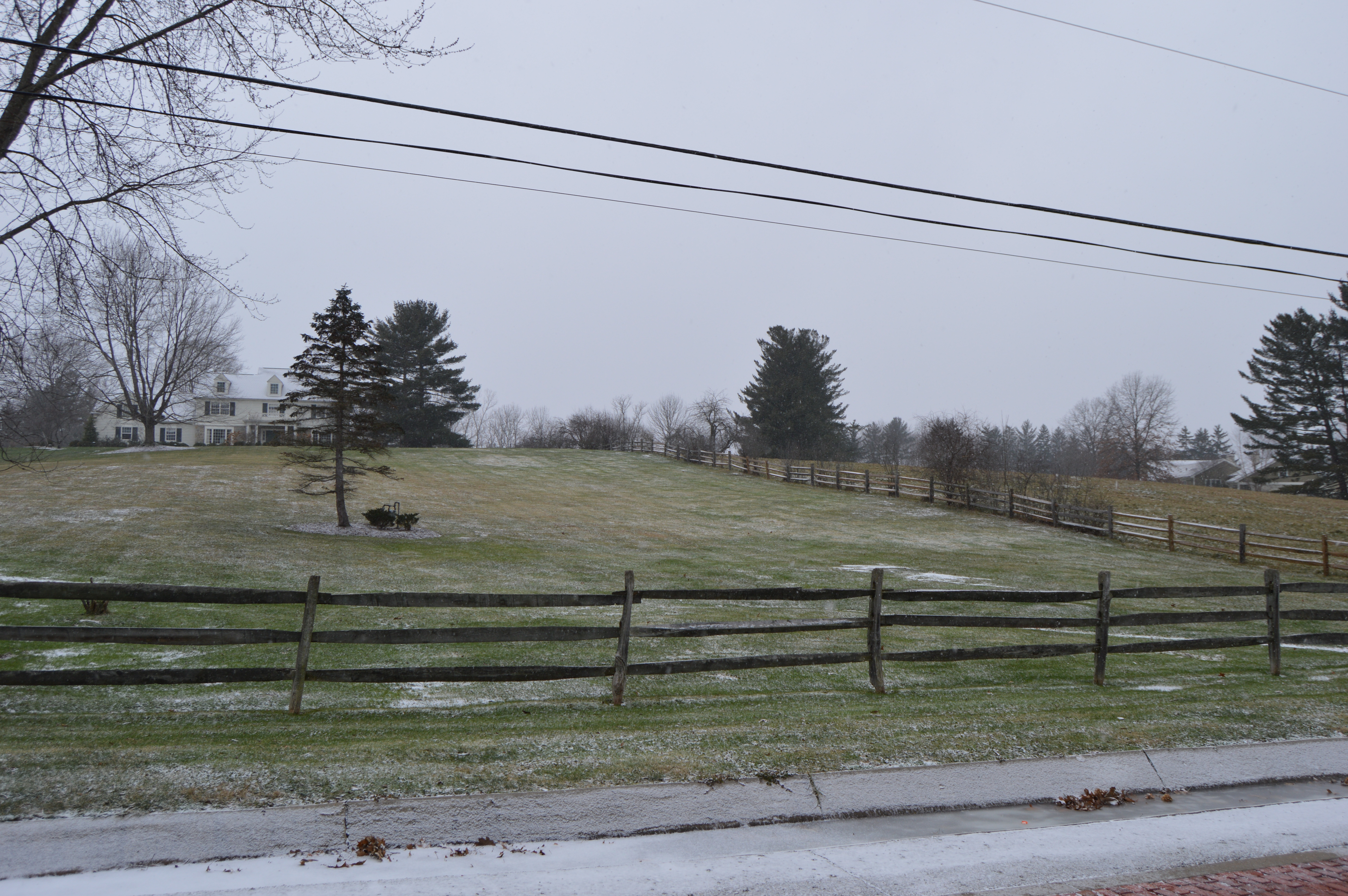 An estate house on Falls River Road in Chagrin Falls Township, Cuyahoga County, Ohio, United States.